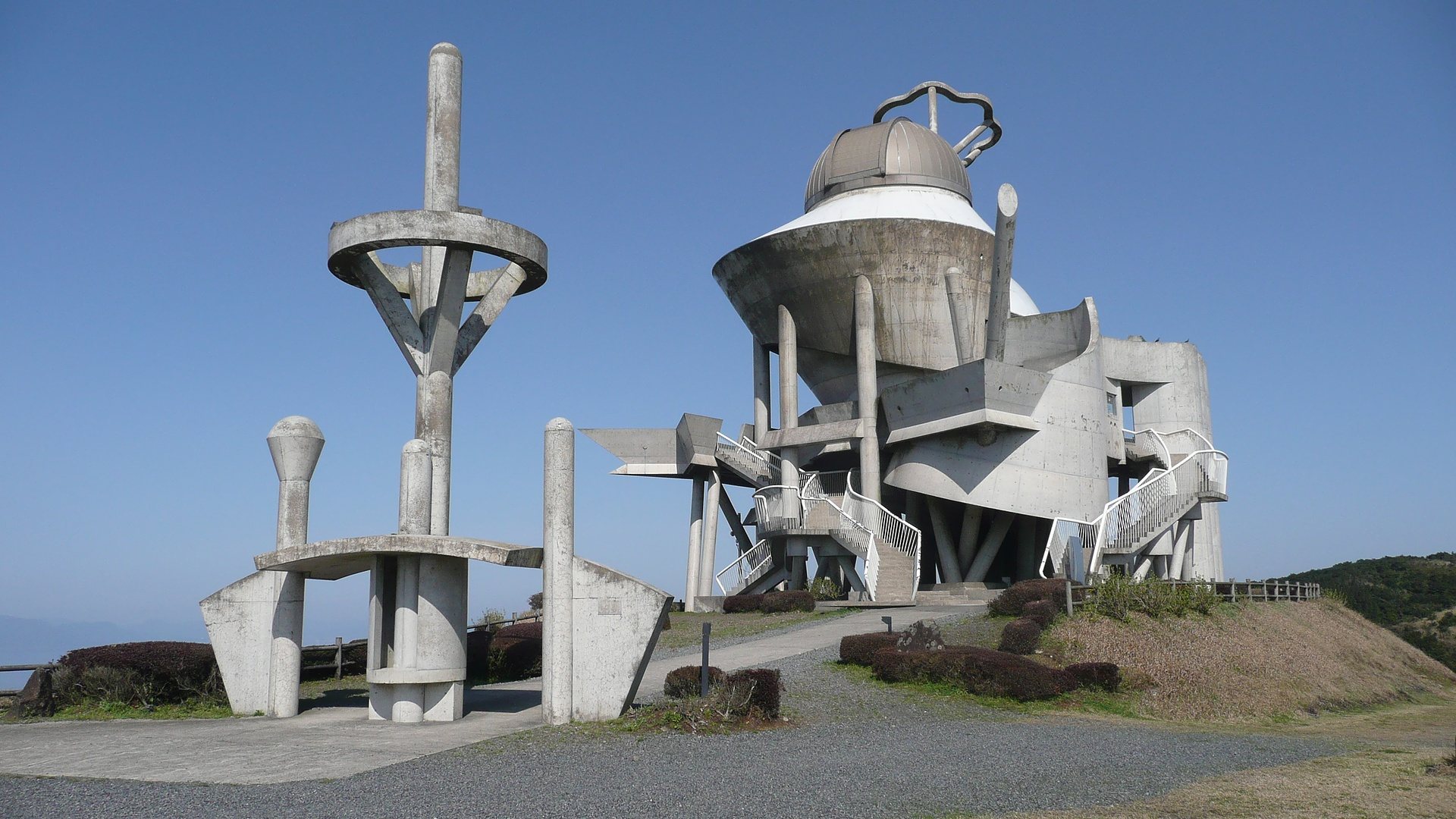 Kihoku Celestial Sphere Hall (Kihoku, Kanoya City, Kagoshima, Japan)